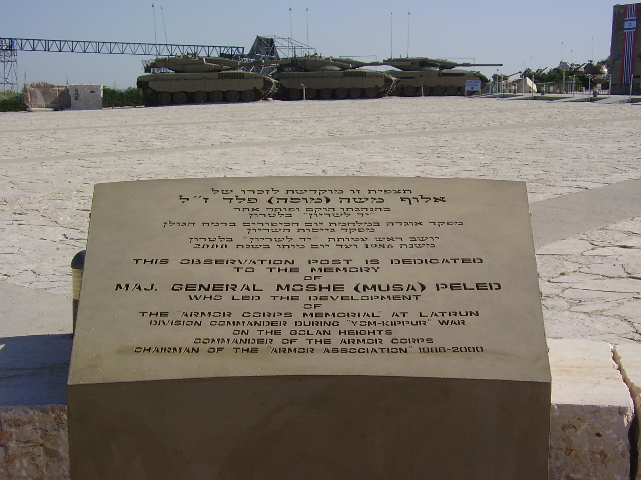 major general moshe peled memorial in latrun